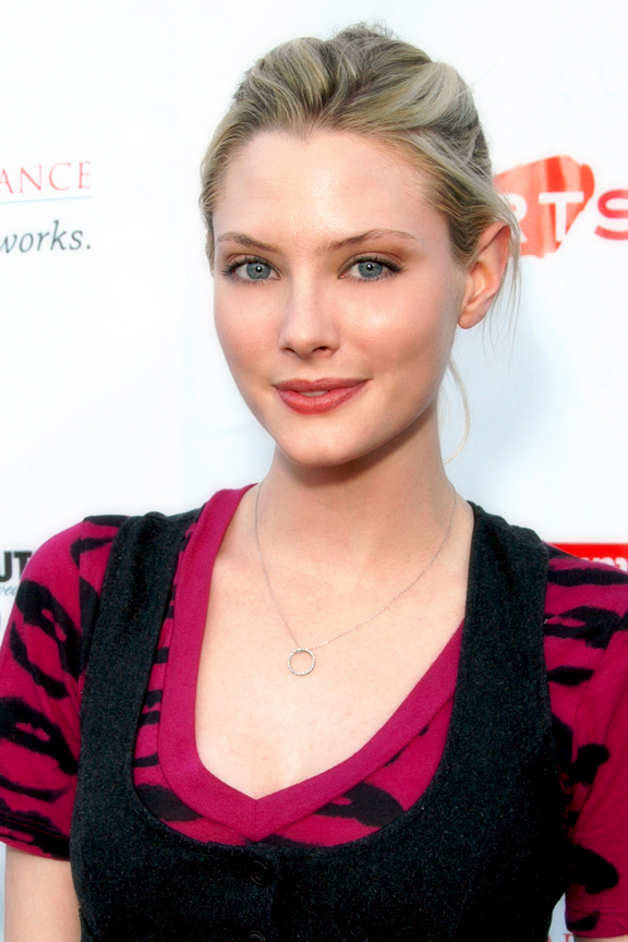 April Bowlby attending the AIDS Research Alliance - Art Seen 3 Featuring A Taste of Los Angeles 05/17/2008 - Culver City, CA, United States